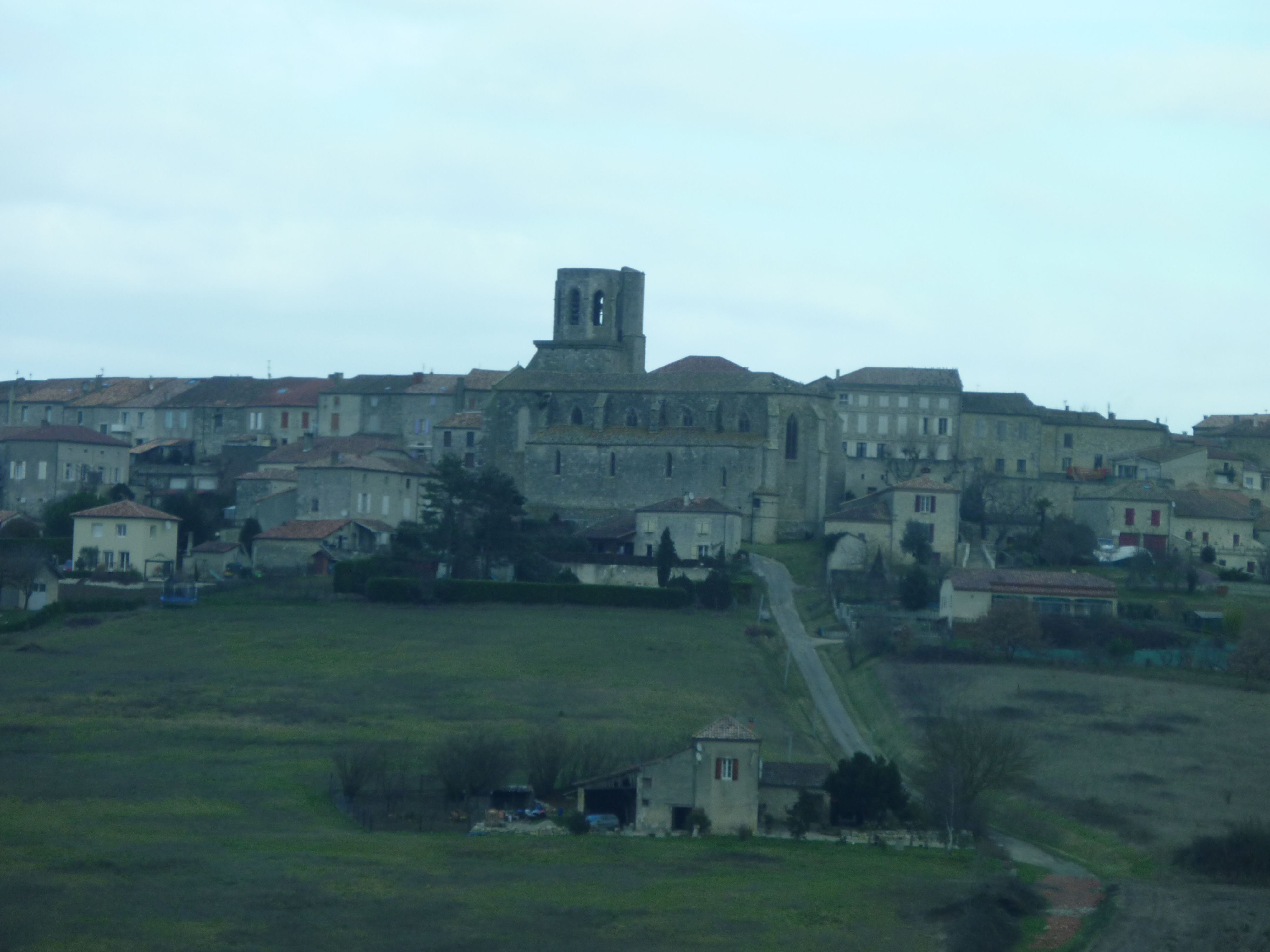 City of Laplume (Lot-et-Garonne, France)